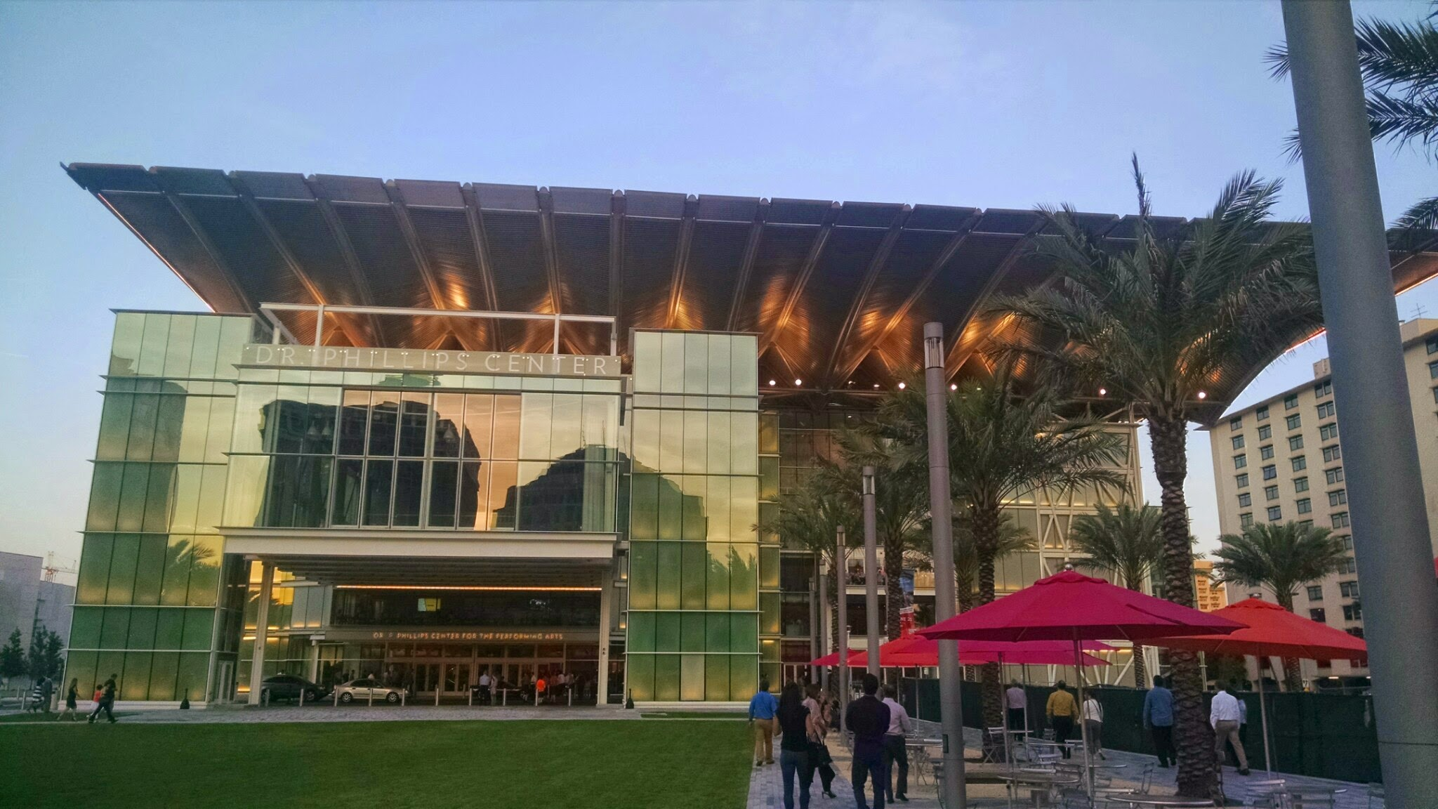 Dr. Phillips Center